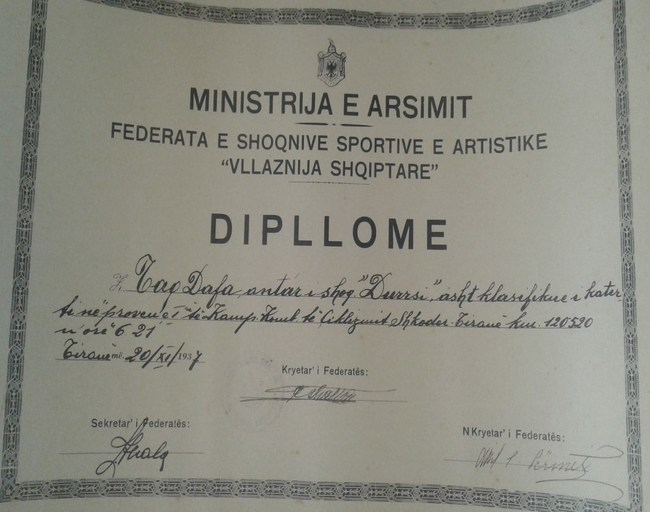 Shkoder tirane